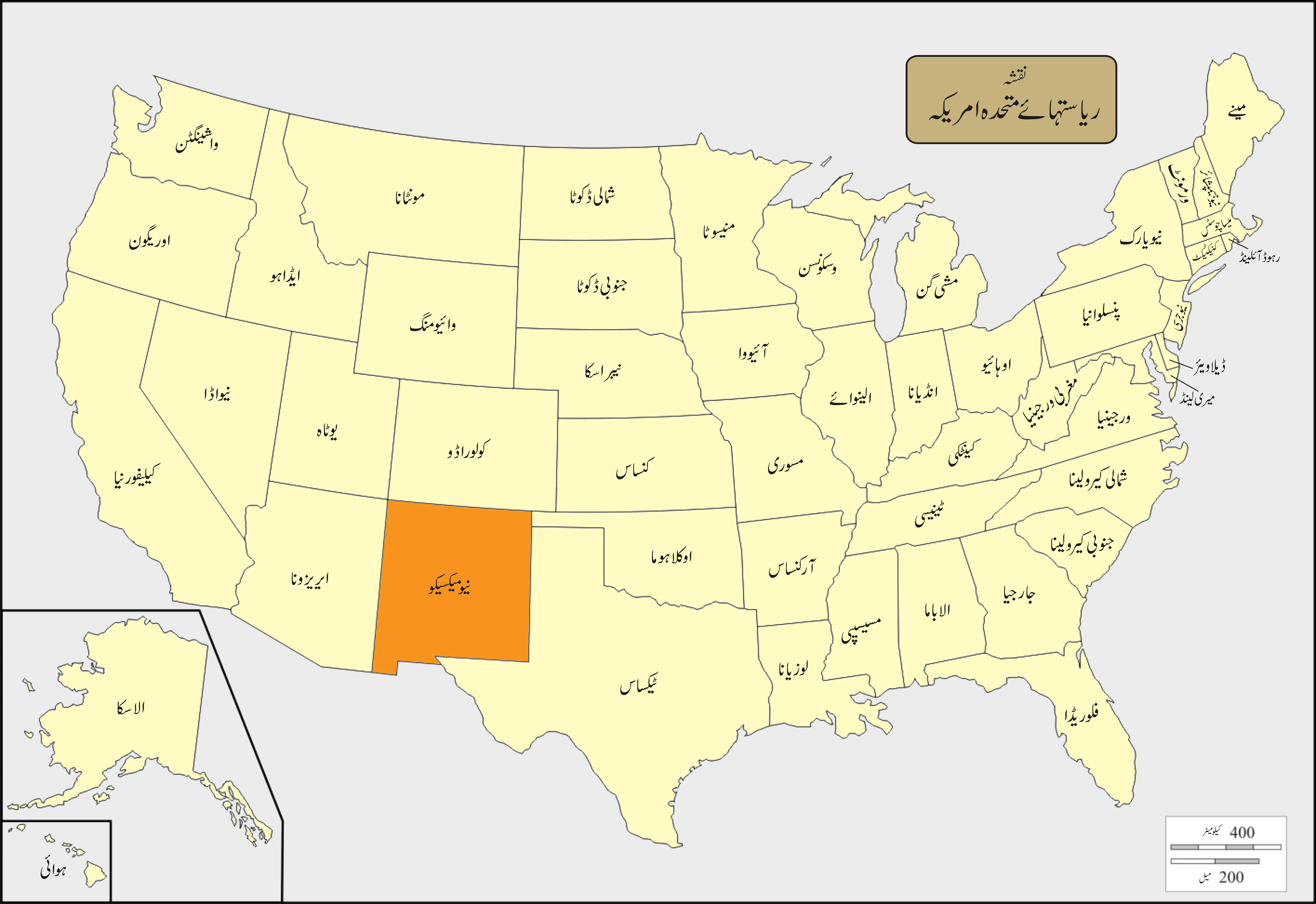 USA Names New Mexico